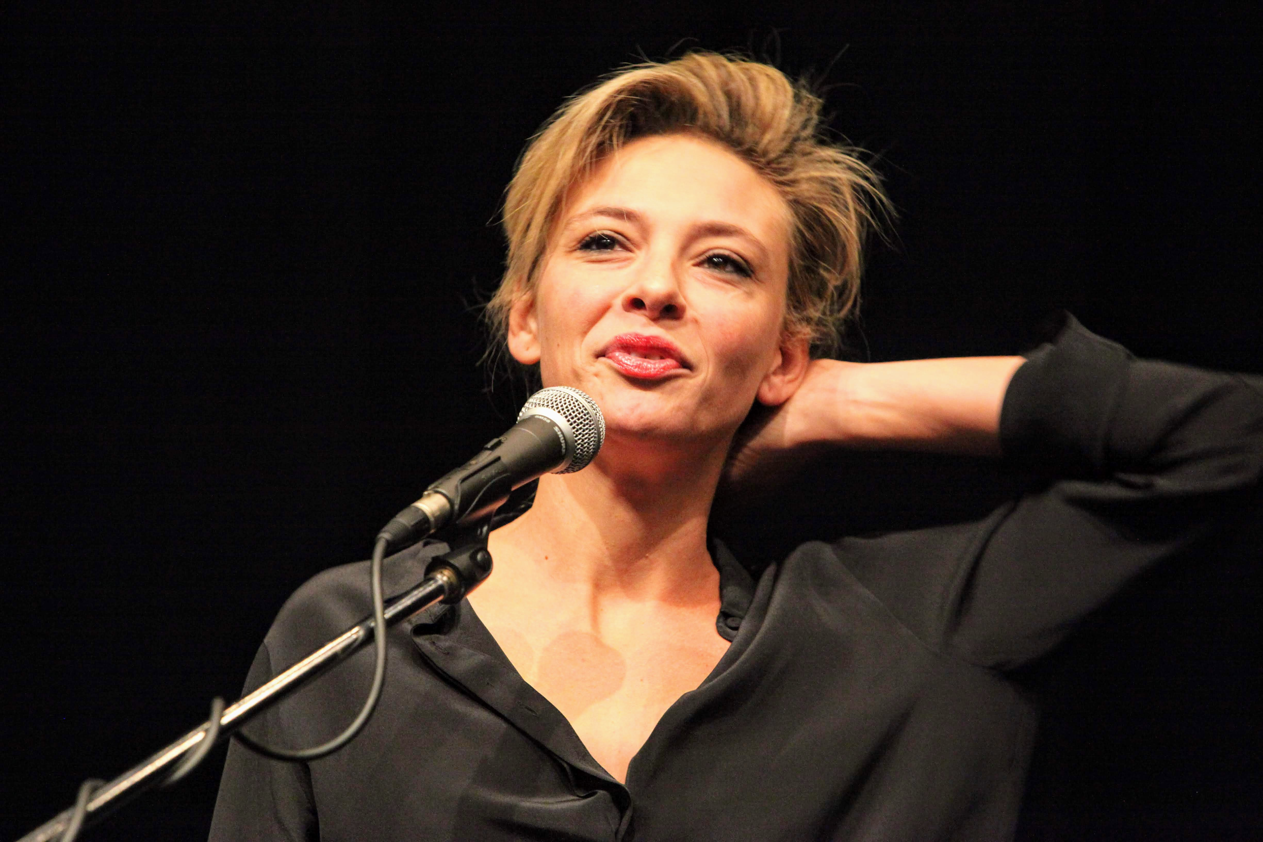 Italian actress Jasmine Trinca at the International Film Festival Karlovy Vary in 2017. She presented the photoplay "Fortunata", in which she embodies the main character Fortunata.